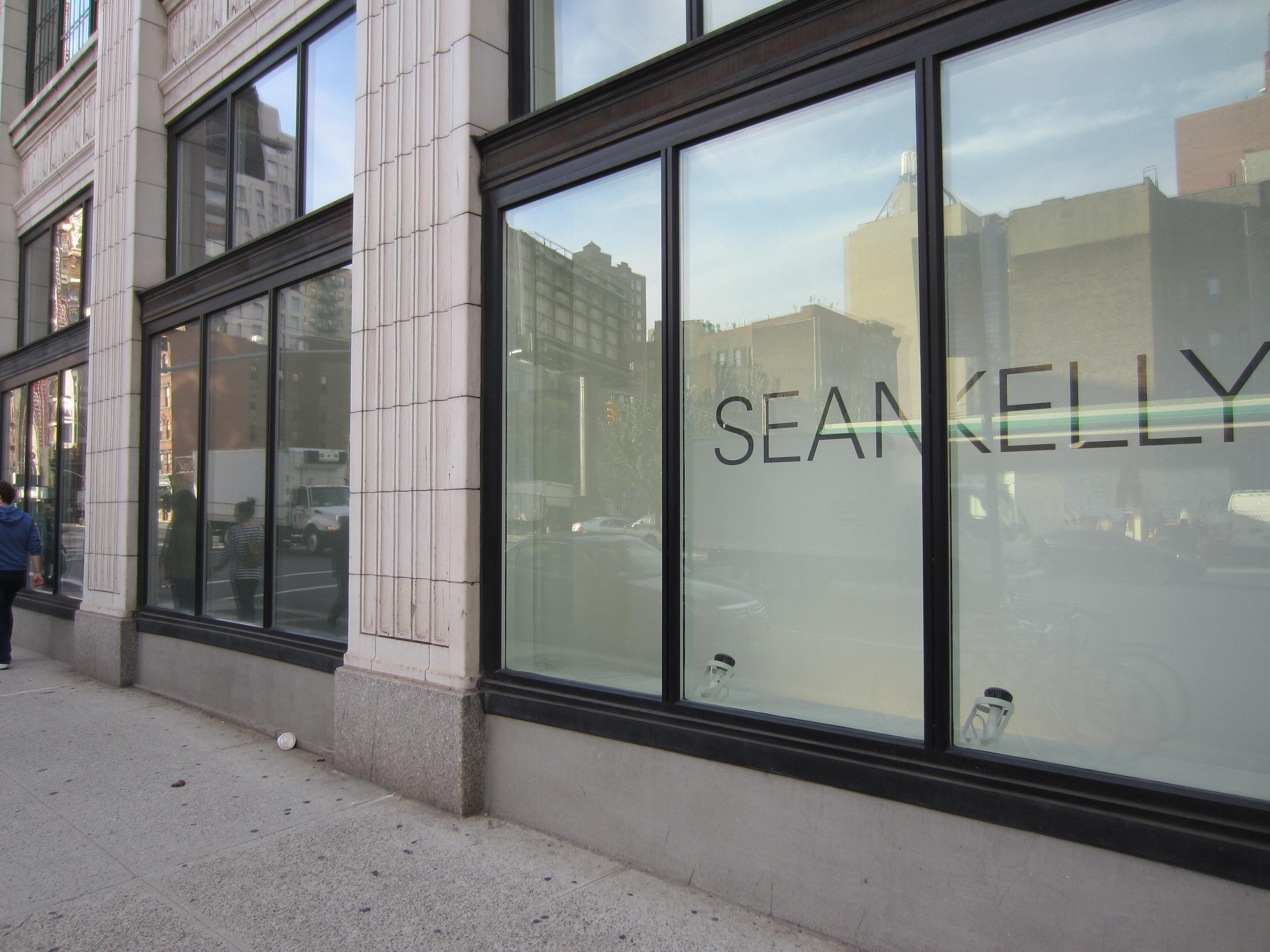 An image taken on a digital camera outside the Sean Kelly Gallery on 29/10/15.